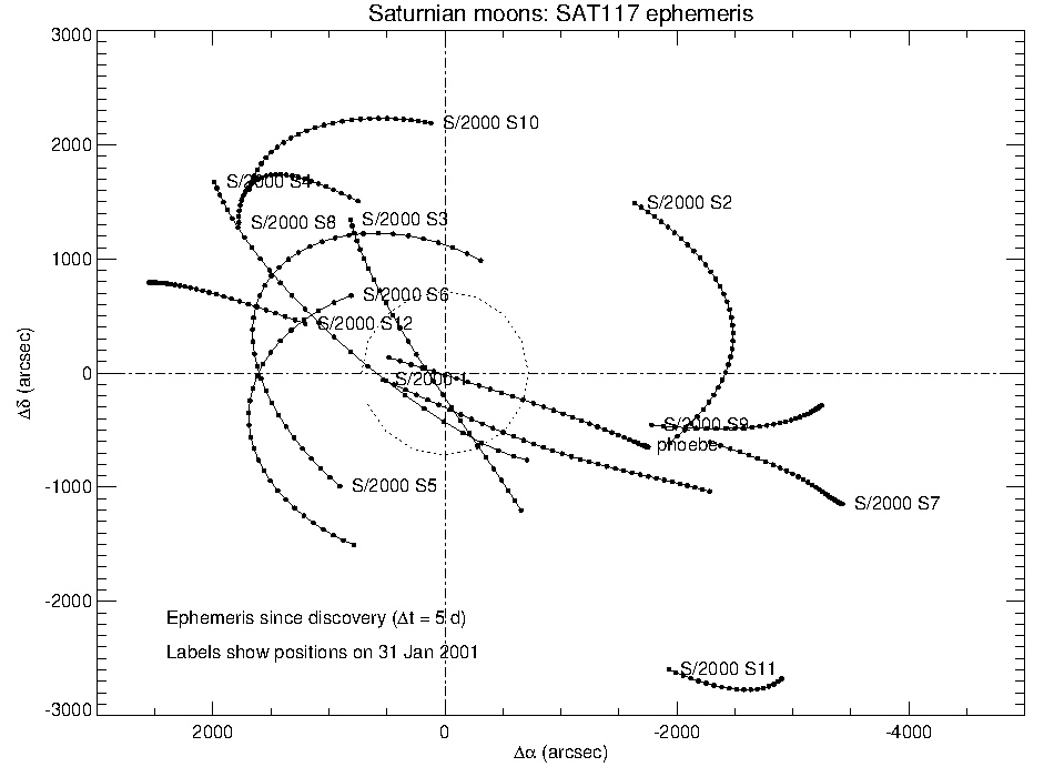 Offset plot of Phoebe along with the 12 irregular satellites of Saturn discovered by Brett Gladman in 2000. This offset plot shows the ephemerides of the irregular satellites relative to Saturn over a 5-day interval beginning on 31 January 2001. The labels mark the starting positions of the trajectories.